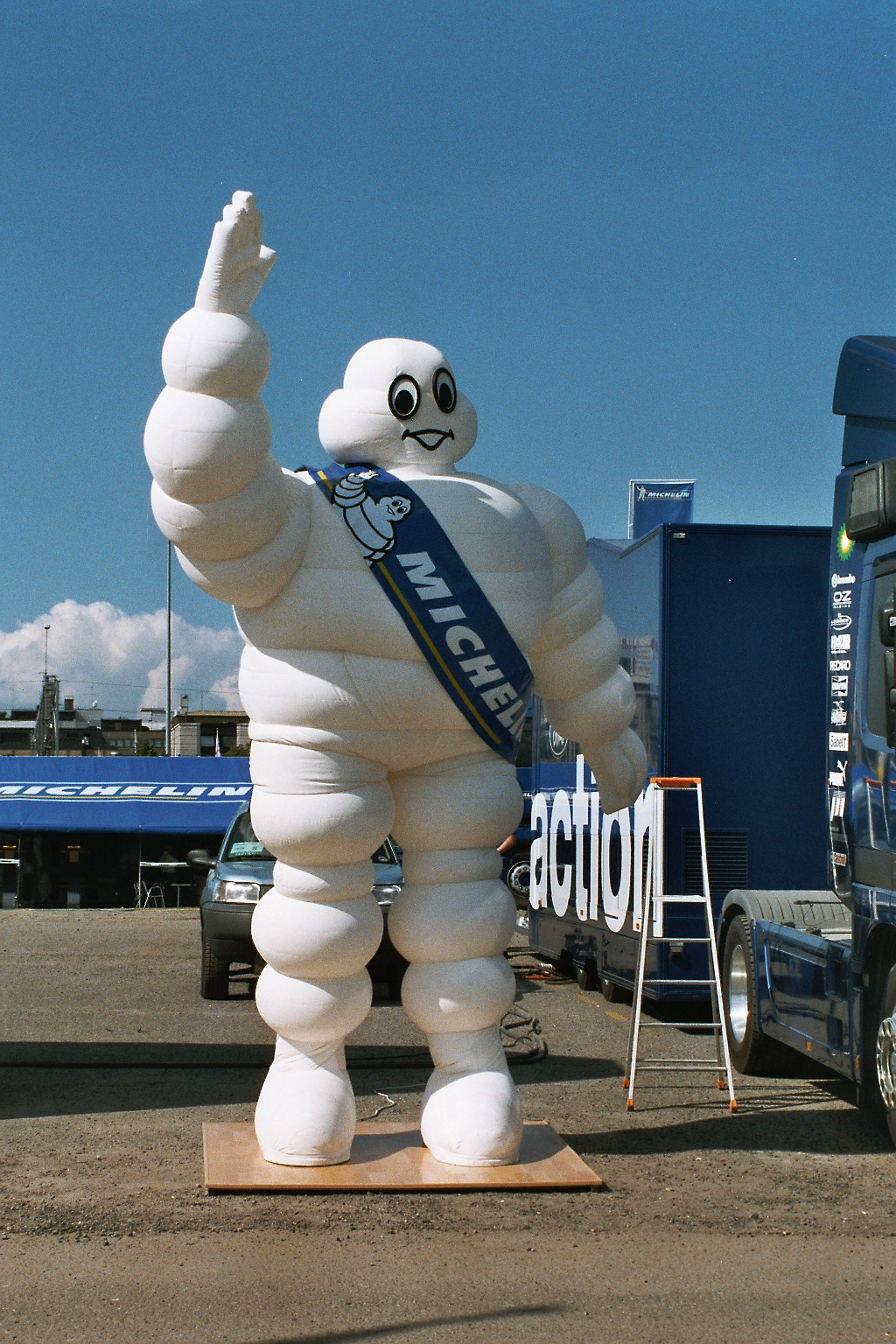 Action from the service park during the 2004 Rally Finland.